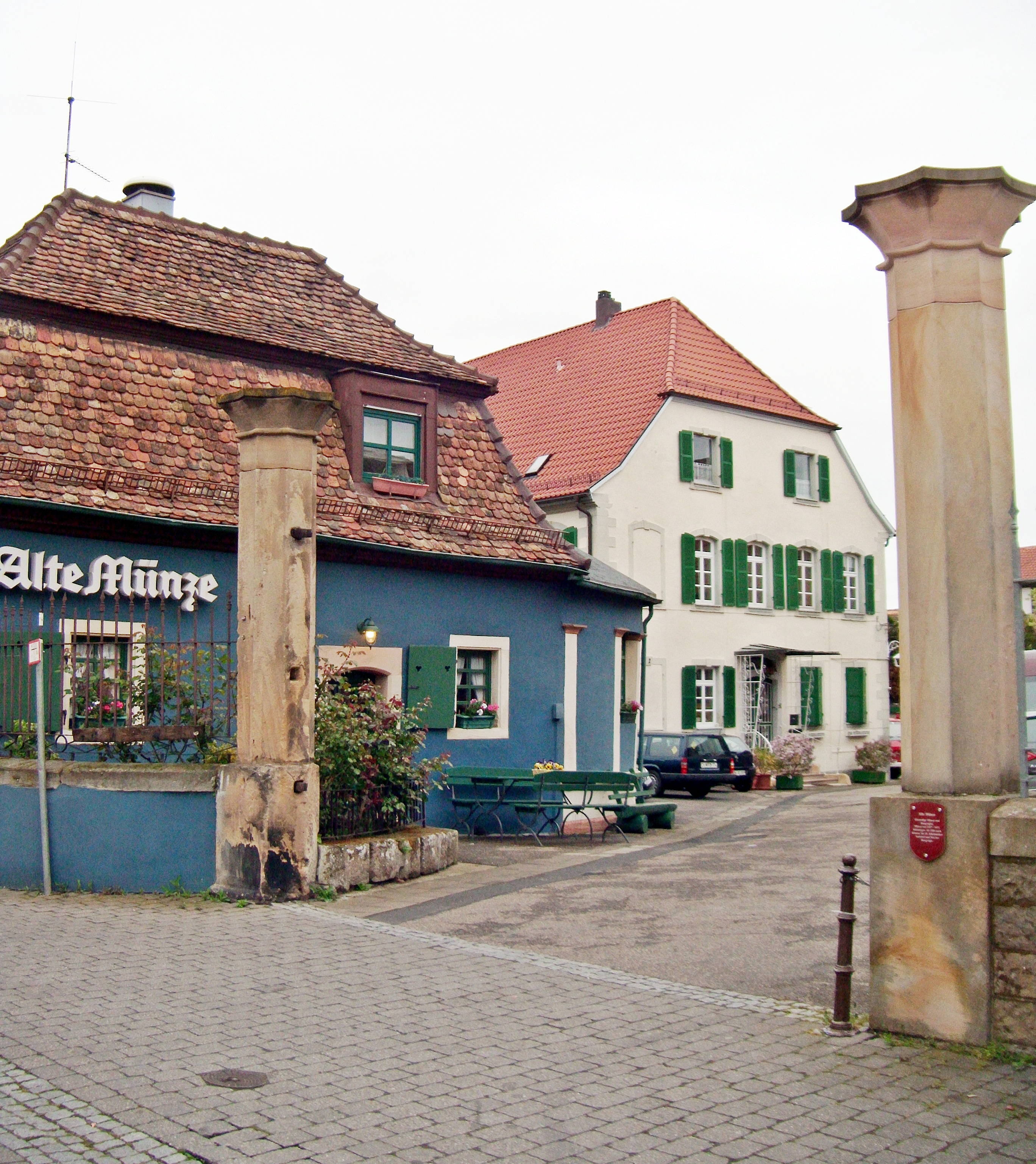 Münzhof (ehem. Gut des Klosters Limburg), Langgasse 2 u. 2a in Wachenheim